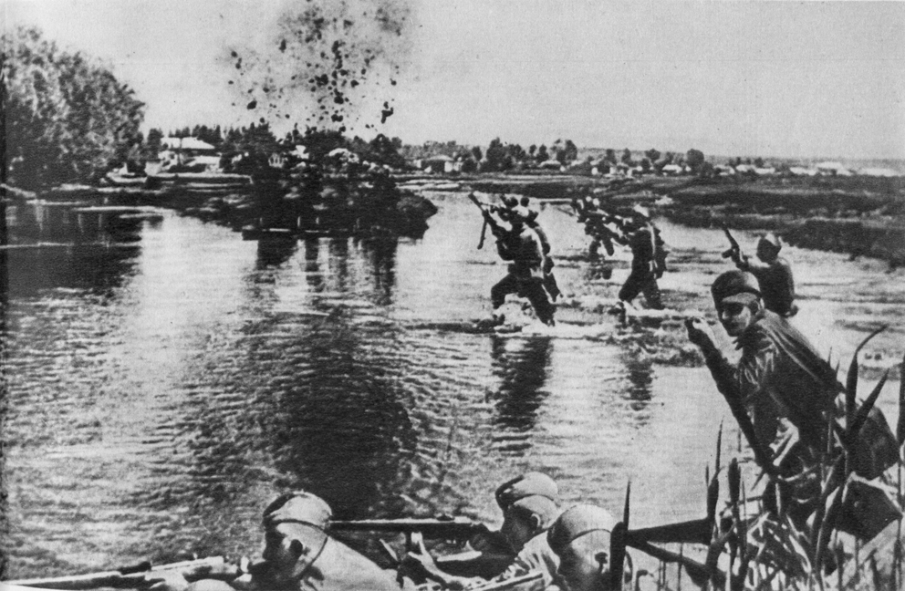 Soviet infantry crossing the river Donec during their offensive to retake the Donbass regeion in late summer 1943.